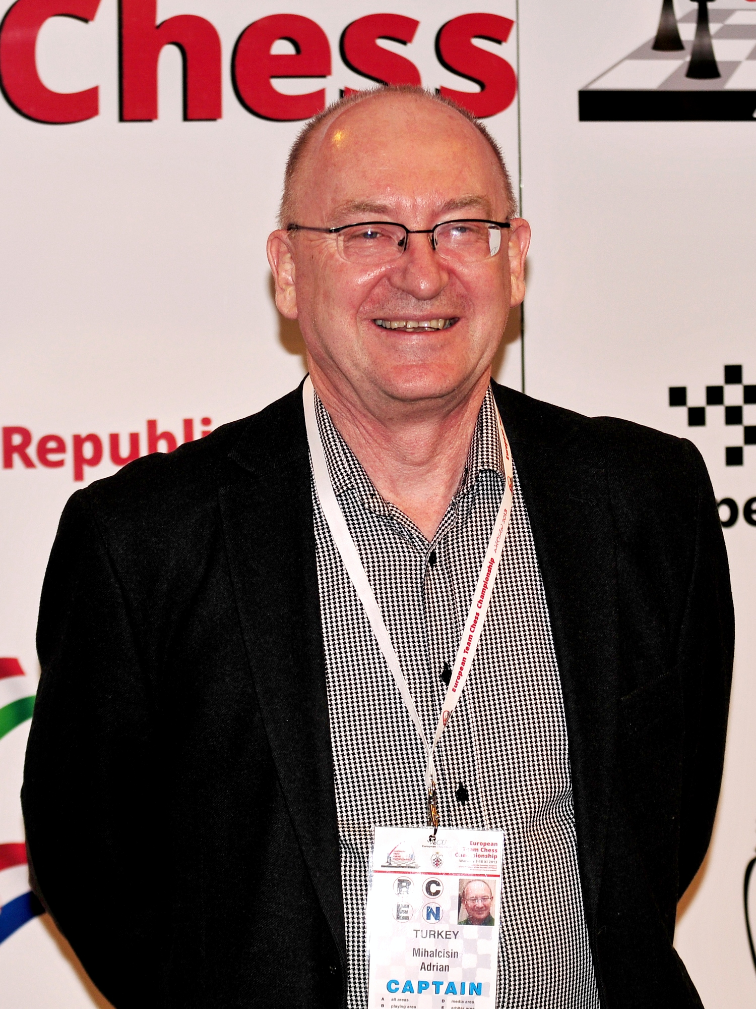 GM Adrian Mikhalchishin, European Chess Team Championship Warsaw 2013